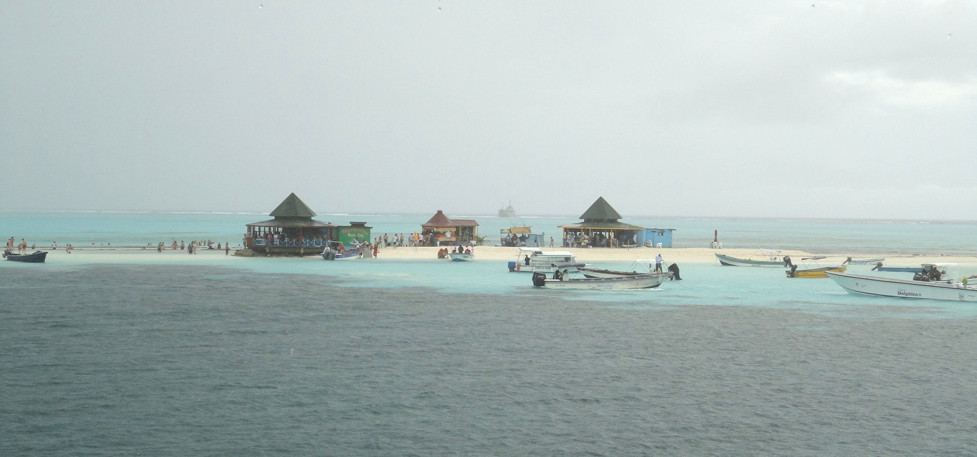 Acuario Cay (Rose Cay) from southwest